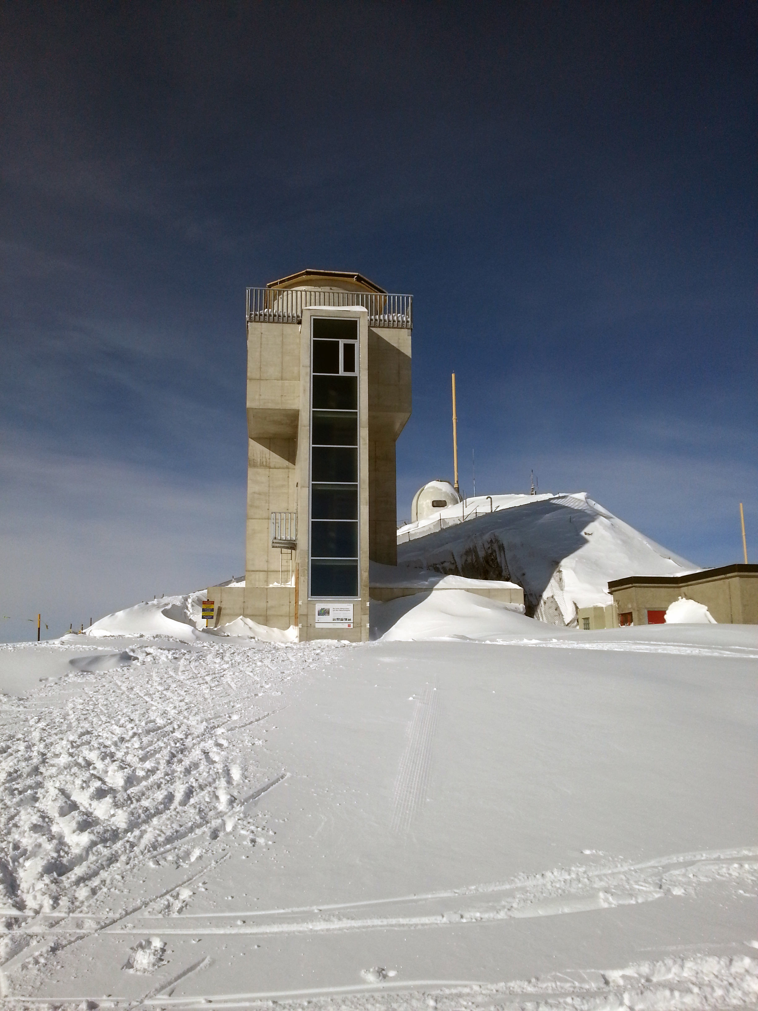 Weather radar on Weissfluh (Davos, Arosa, Grison, Switzerland) during construction. Radar antenna and radome are still missing on top of the tower.